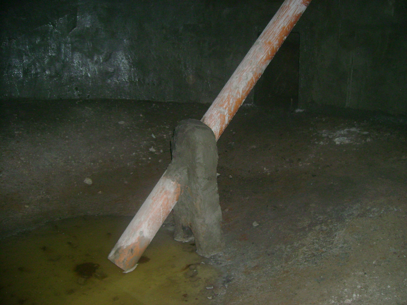 The bottom outlet pipe works with hydraulic level difference which pushes out the sludge.